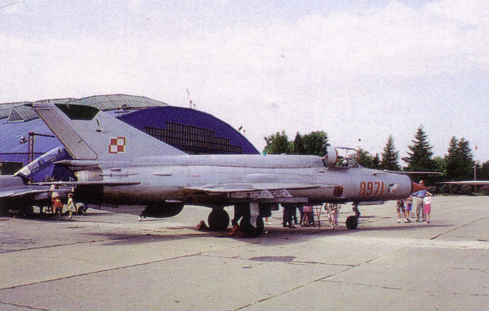 Polish MiG-21 bis